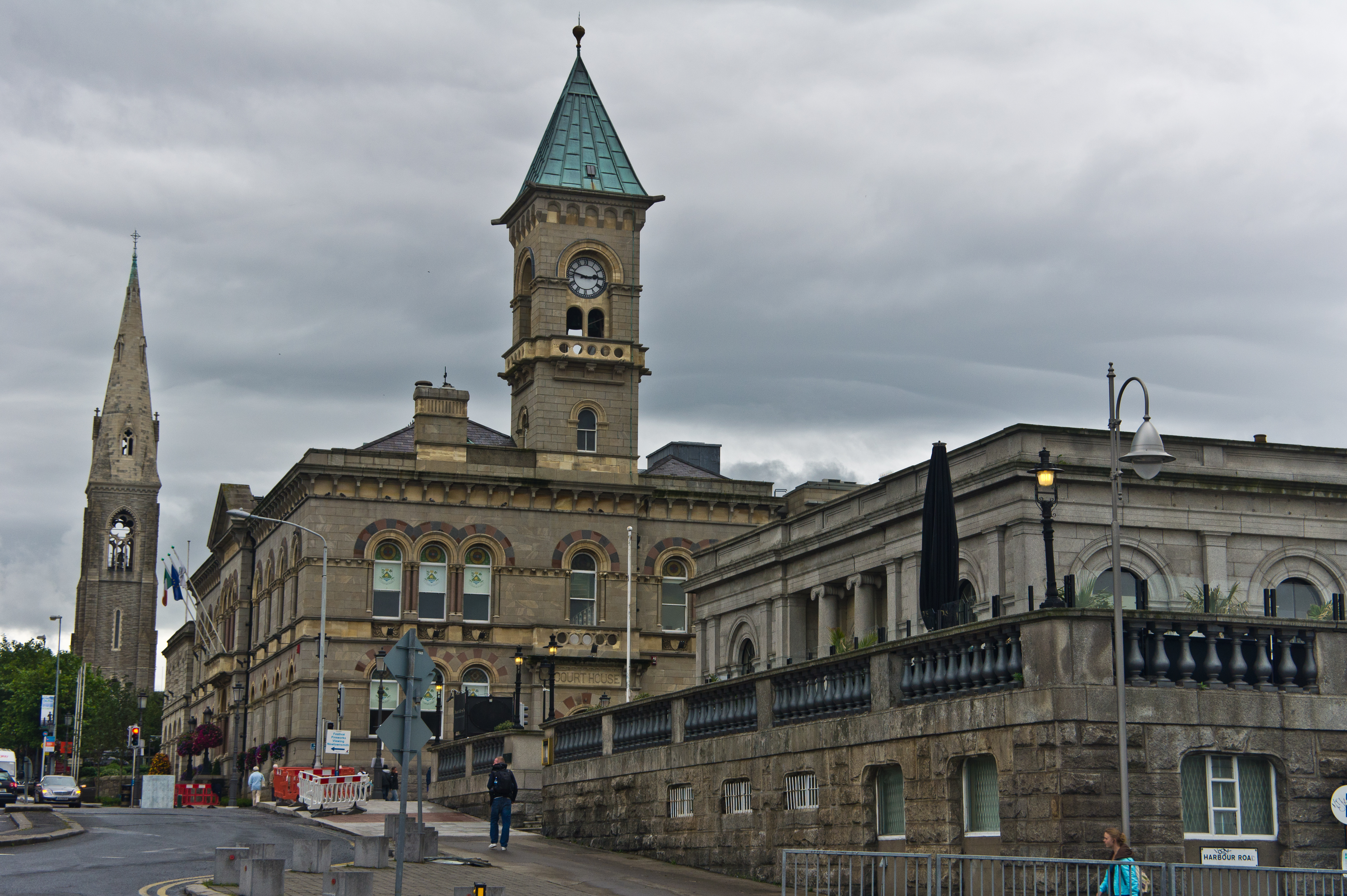 Dun Laoghaire Town Hall